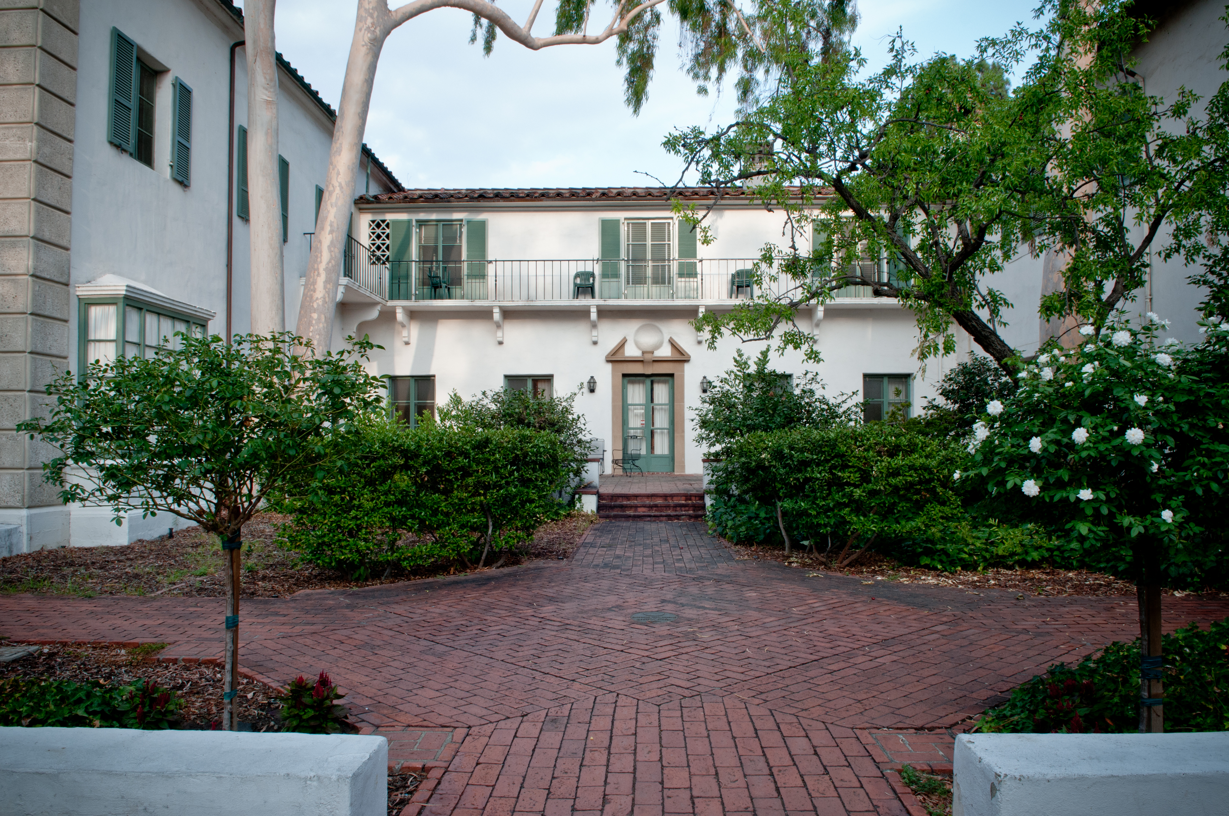 Scripps College for Women Browning and Dorsey Residence Halls